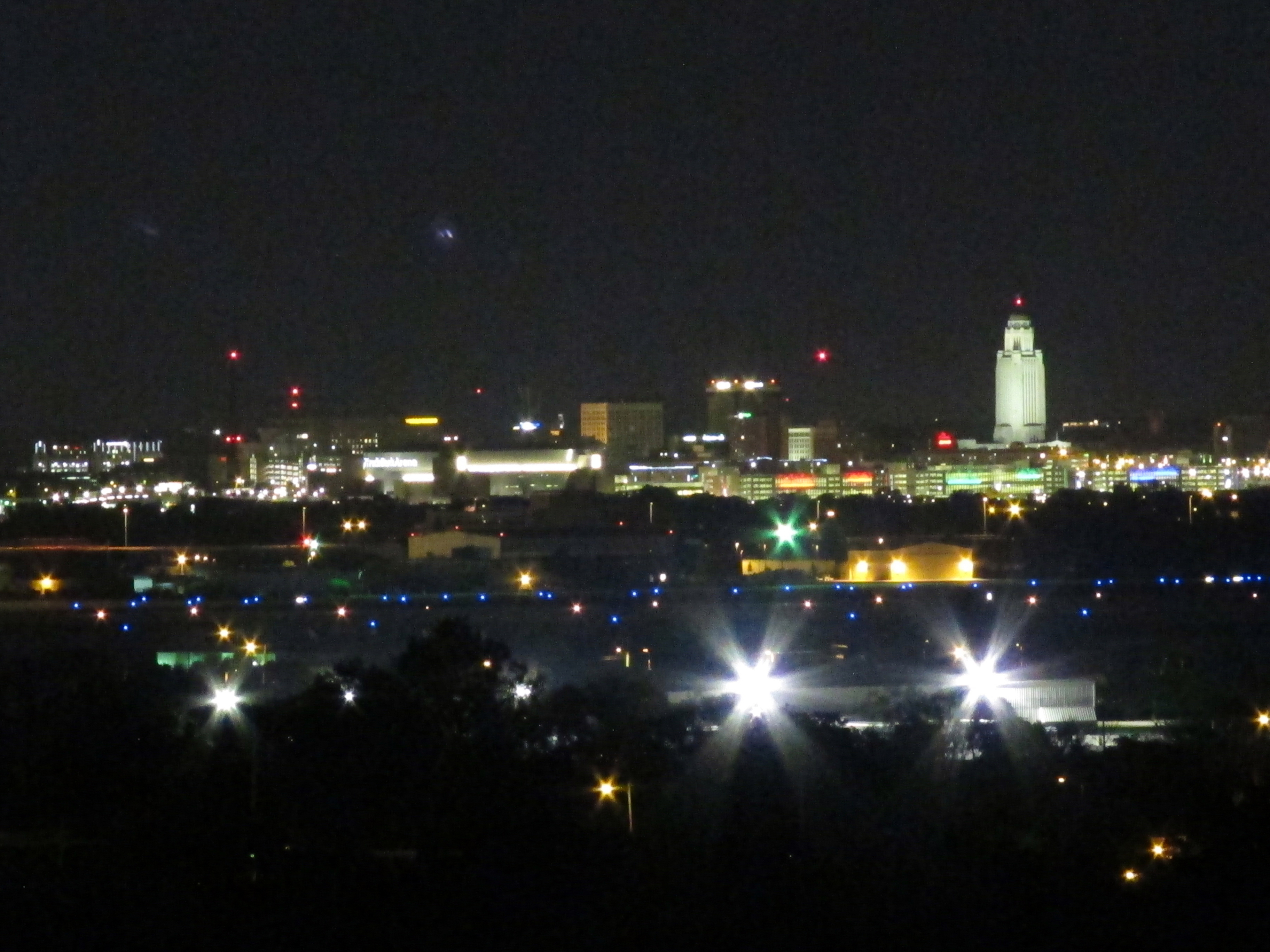 Skyline of downtown Lincoln, Nebraska; as seen at night from Arnold Heights Park on 27 September 2015.